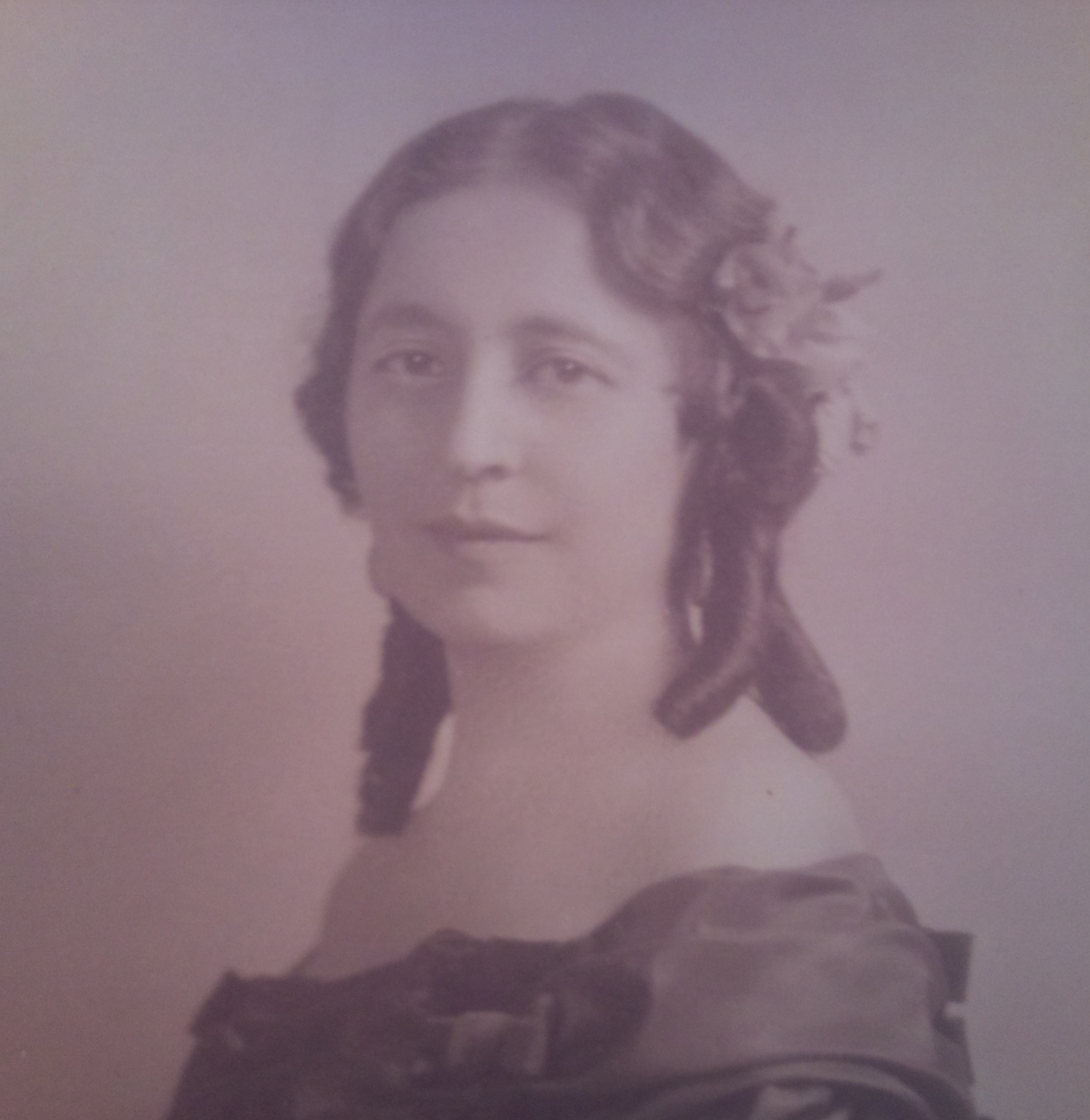 Photo of Bistra Vinarova